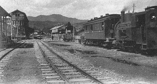 Akita Hanaoka Station in Taisho era